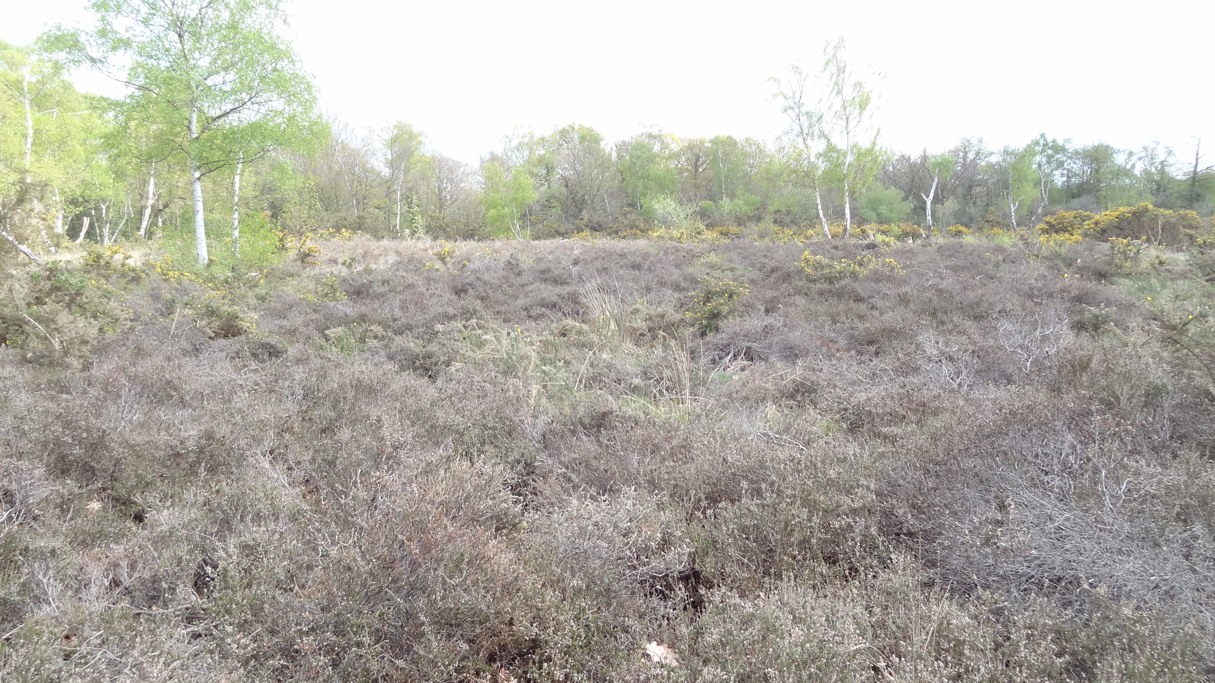 Hayes Common, Bromley, London